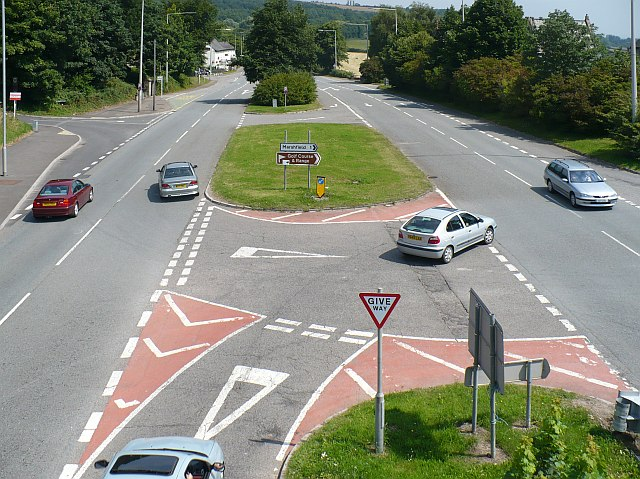 A48 at Castleton. View eastwards from the footbridge. At the top left is 897509. Up until the 1960s a row of cottages and shops existed where the central reservation now is; the early A48 following the line of the right-hand carriageway.